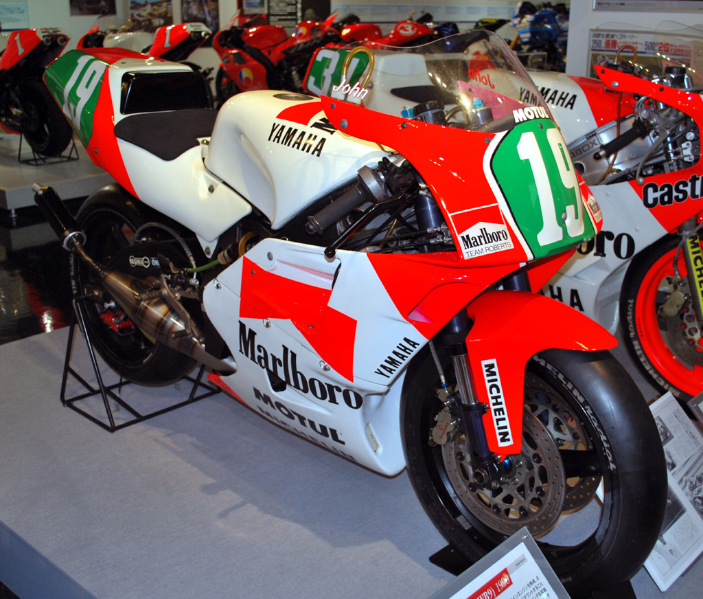 Yamaha YZR250 (1990, John Kocinski)